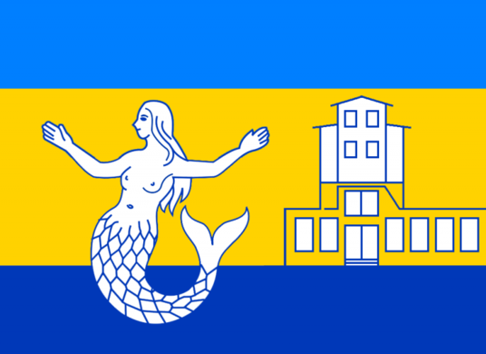 Flag of the Israeli micronation of Akhzivland.